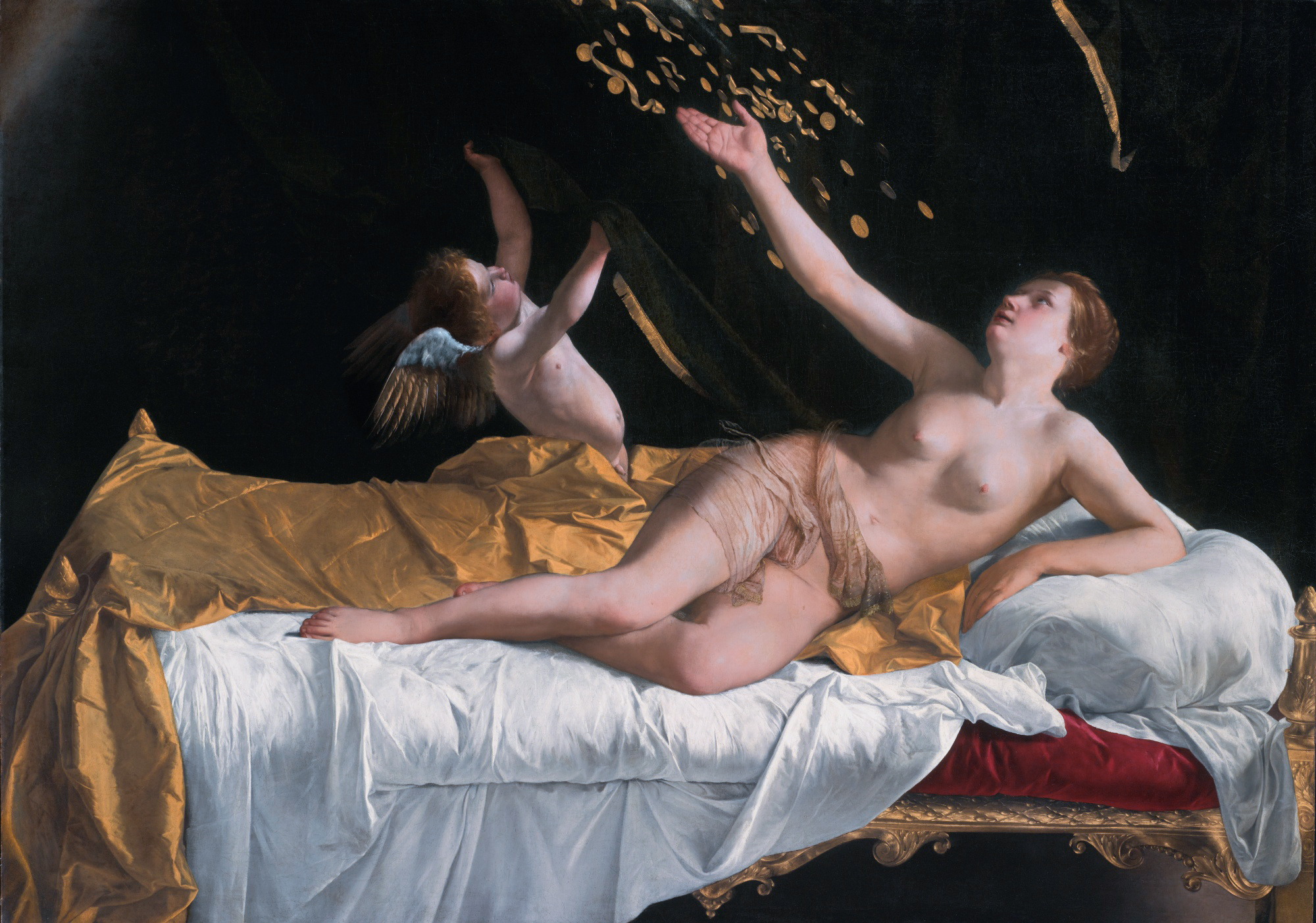 Danaë oil on canvas 161.3 x 226.7 cm after 1621